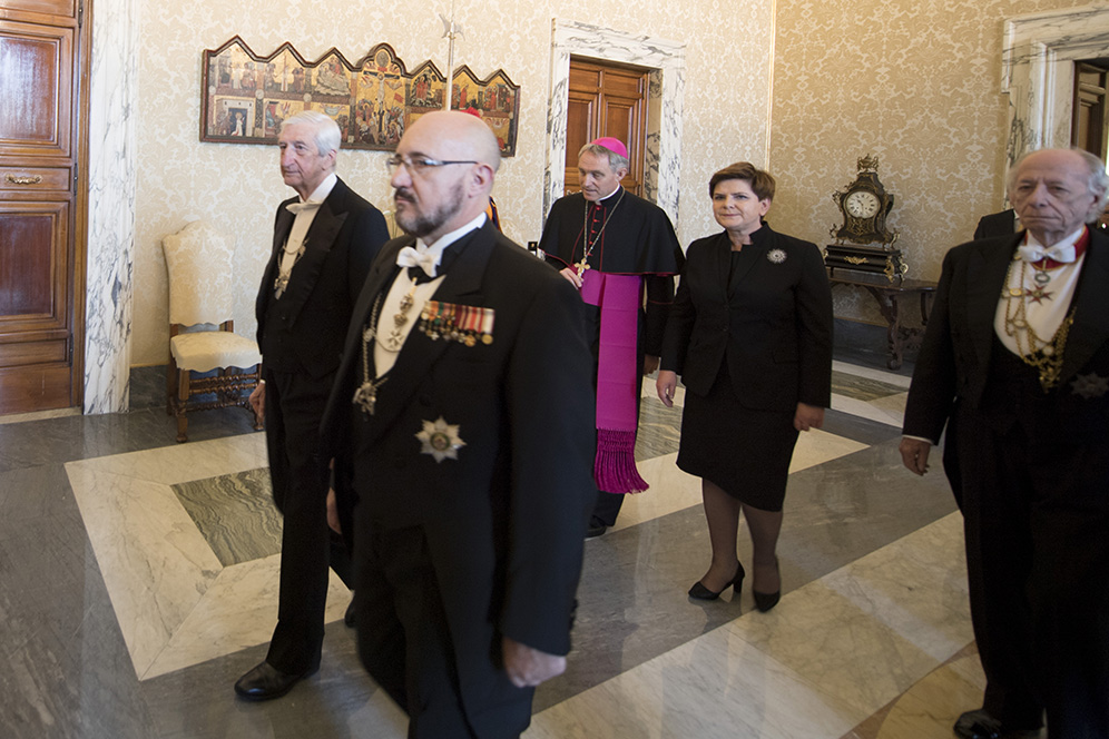 13.05.2016, Watykan | Wizyta premier Szydło w Watykanie wpisuje się w przygotowania do zbliżających się Światowych Dni Młodzieży w Krakowie. Tematem rozmów z papieżem Franciszkiem będzie również sytuacja geopolityczna na Wschodzie, a także wzmocnienie współpracy z Watykanem na rzecz ochrony praw człowieka. Fot. P. Tracz / KPRM